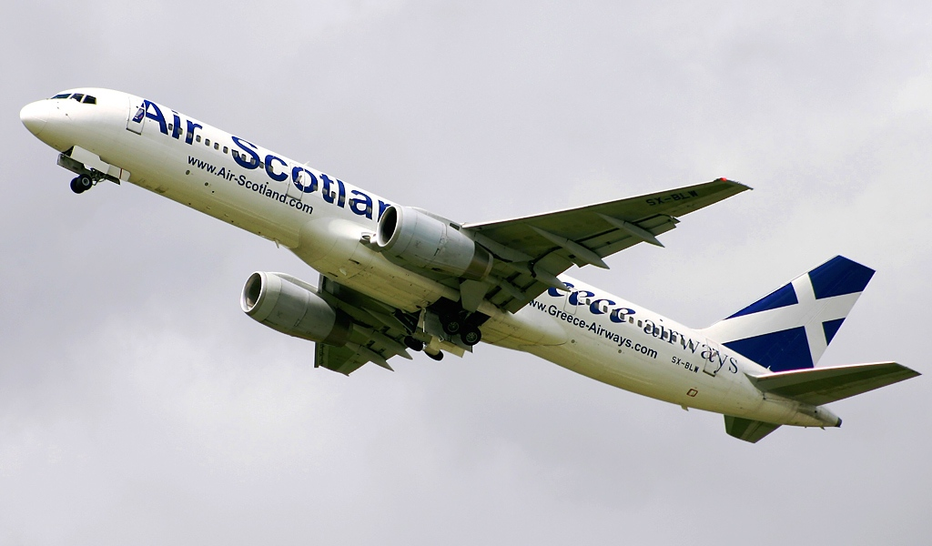 Air Scotland Boeing 757 version 236, registration number SX-BLW, leaving runway 23 at Glasgow International Airport, Scotland.